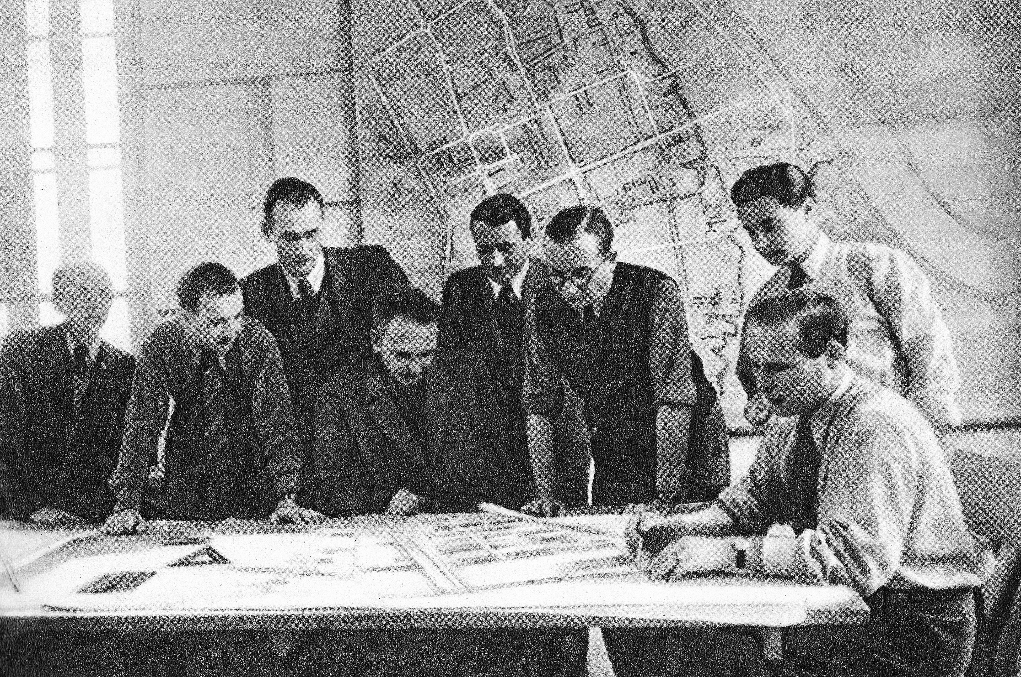 Employees of the Capital Recontruction Bureau (BOS) in the Sródmieście studio. Pictured from the left engineers: Zygmunt Skibniewski, Stanisław Jankowski, Stanisław Dziewulski, Wojciech Piotrowski, Mikołaj Kokozow, Kazimierz Marczewski, Jerzy Wasilewski and Tadeusz Iskierka